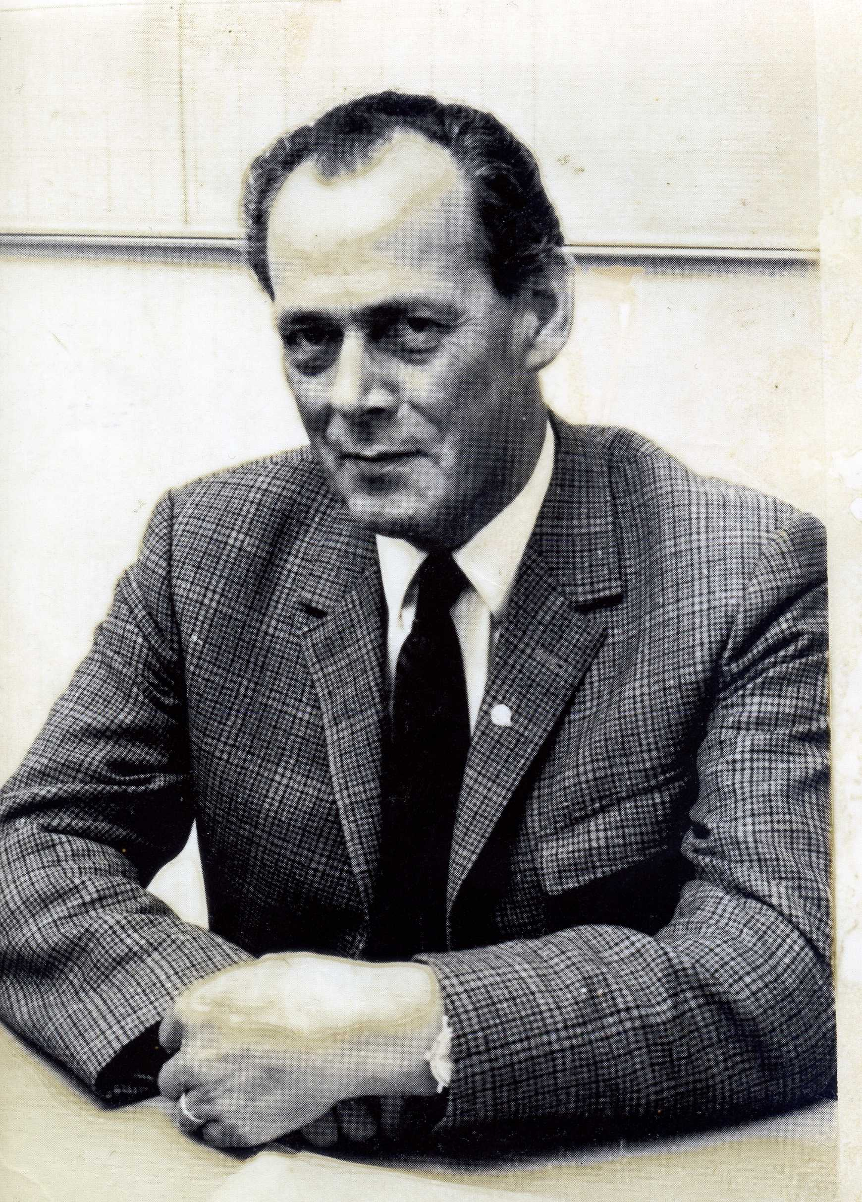 Picture of Hub Ritzen donated by family